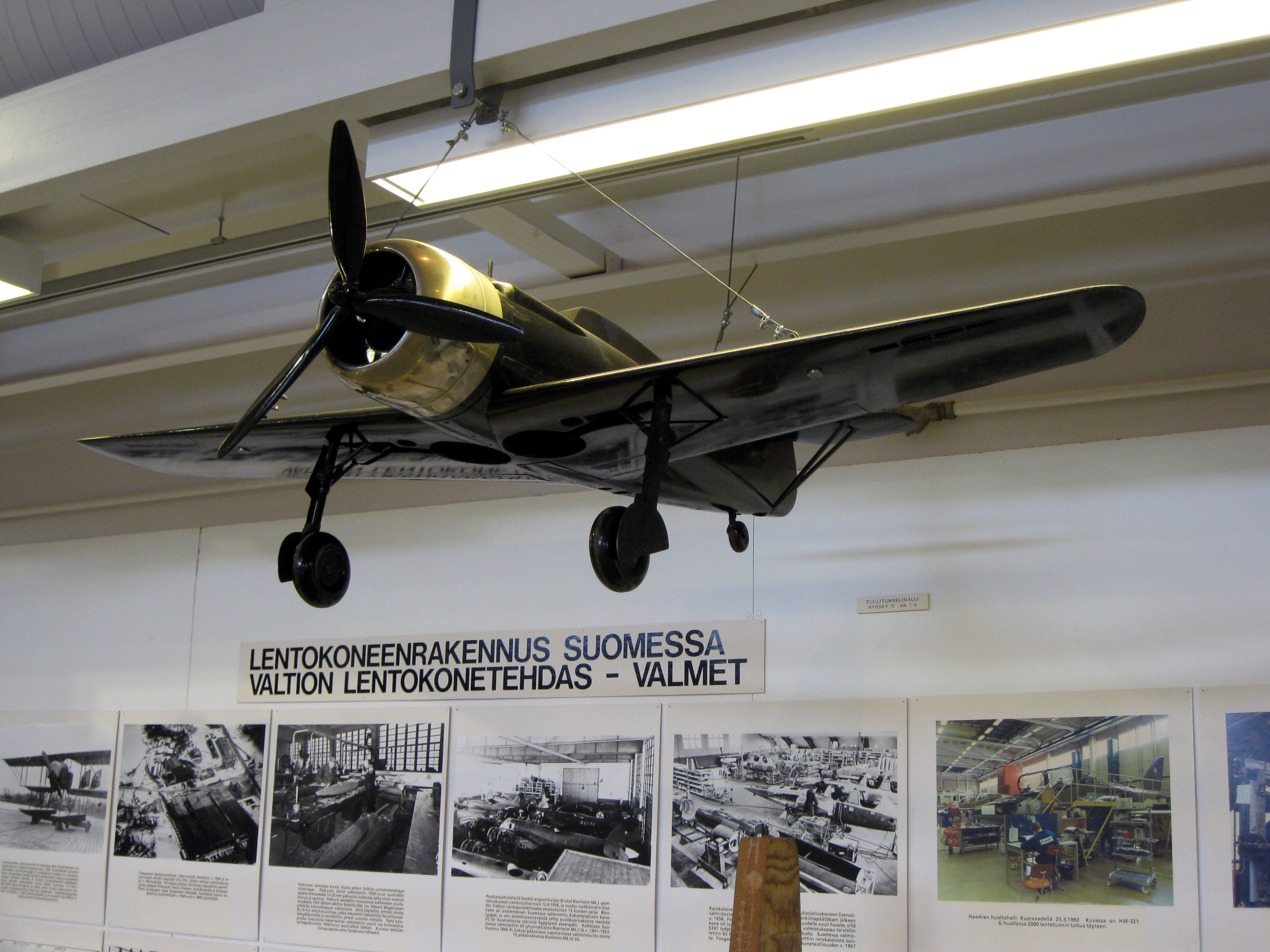 1:6 scale VL Myrsky wind tunnel model in Aviation Museum of Central Finland.